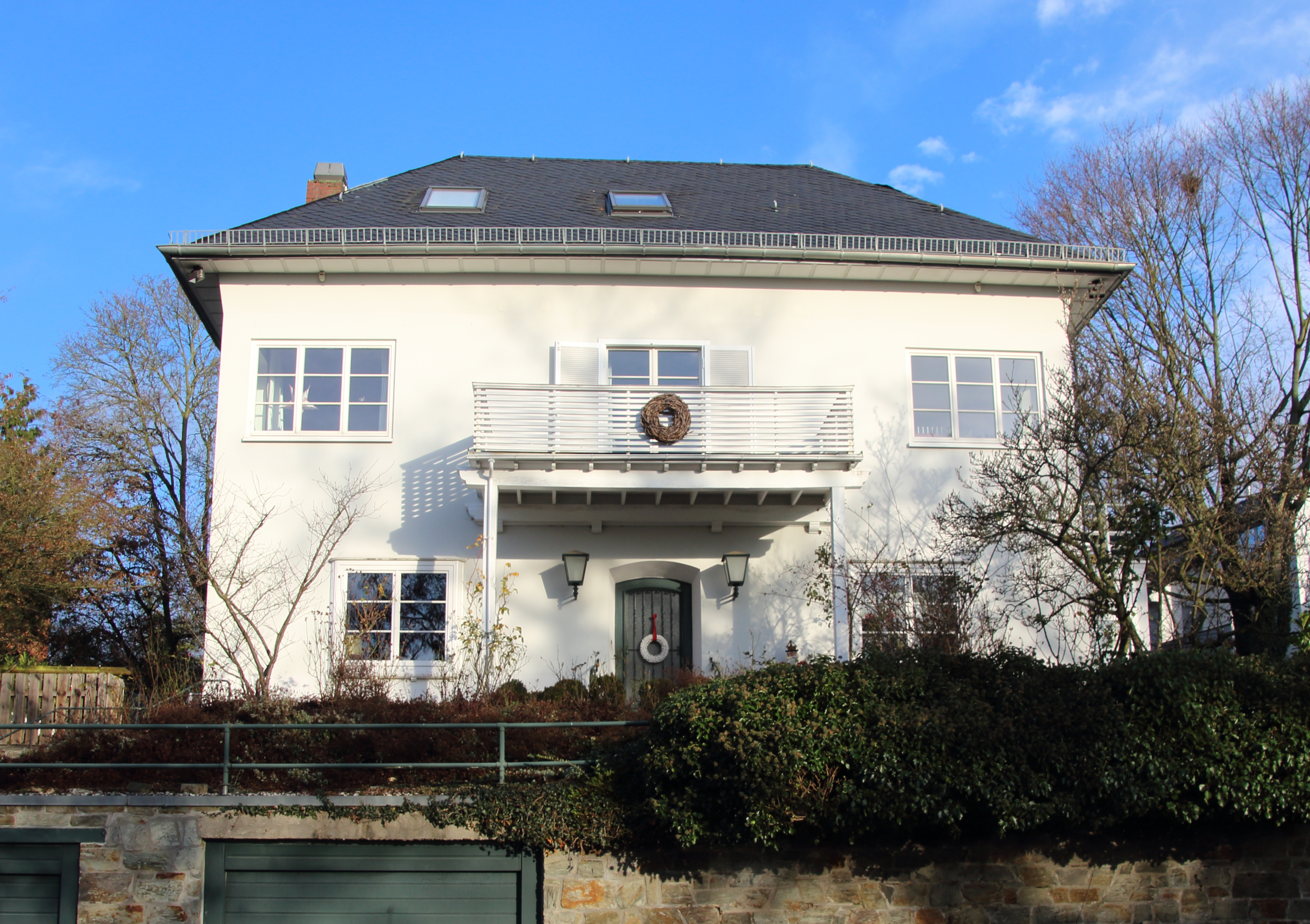 Ryder House (1923). Planed by Ludwig Mies van der Rohe, constructed by Gerhard Severain. Wiesbaden, Germany